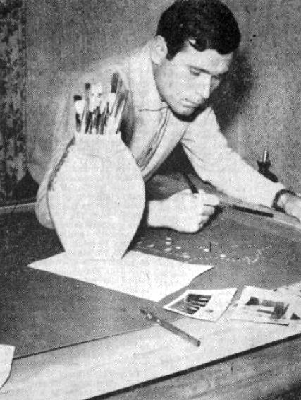 Andrej Ajdič (1937-), Slovene painter